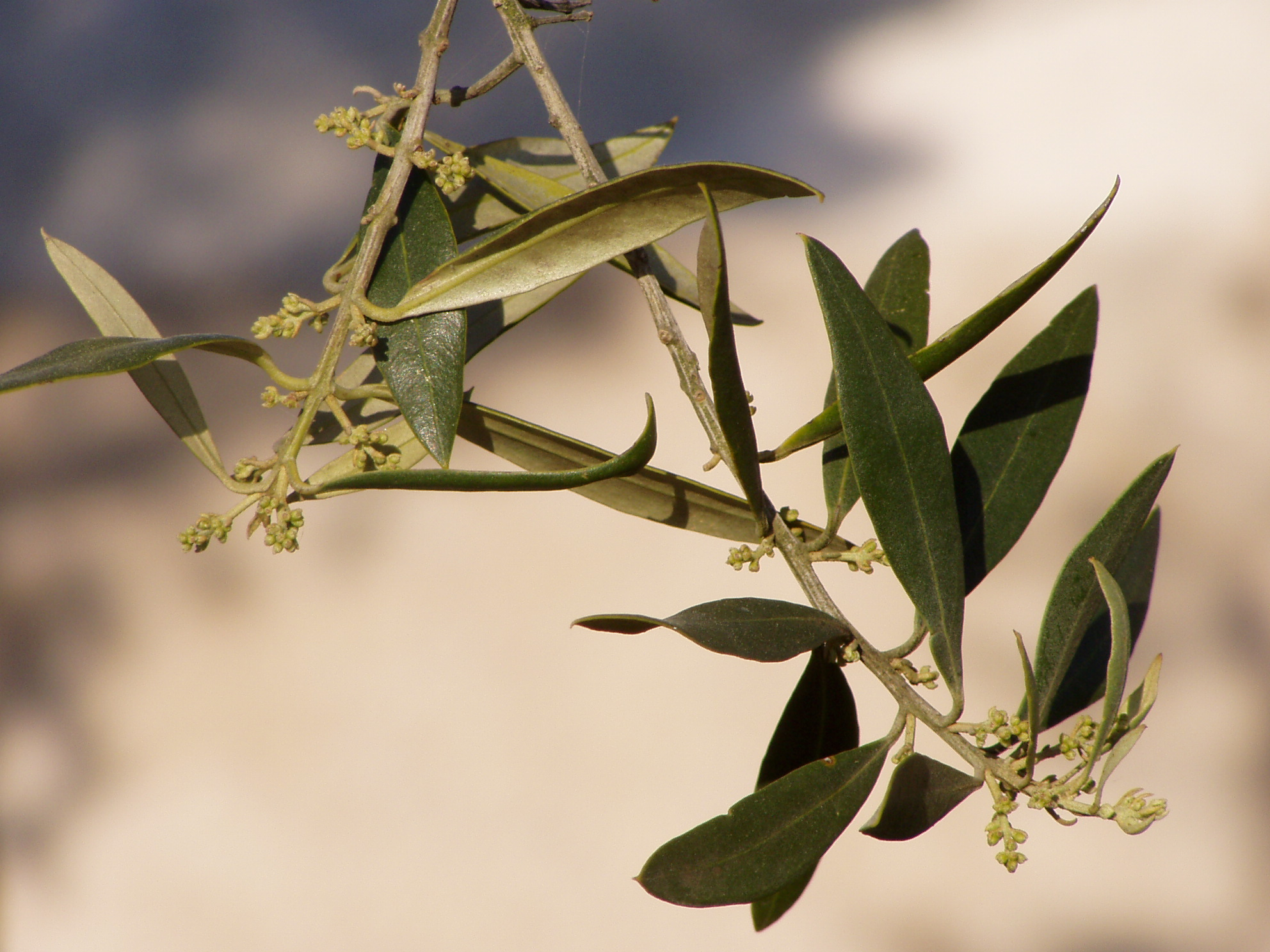 Olive tree